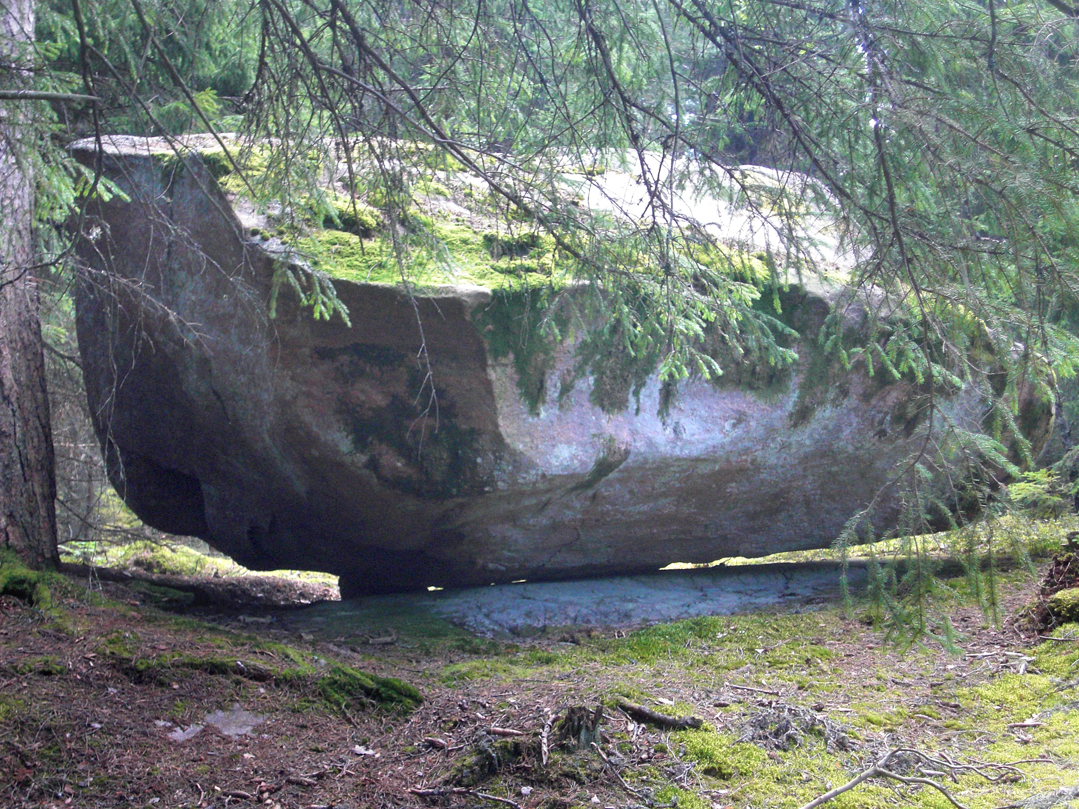 A rocking stone near Hendenestorp in Trävattna parish, Vilske hundred, Falköping municipality, former Skaraborg county, Västergötland, Västra Götaland county, Sweden.